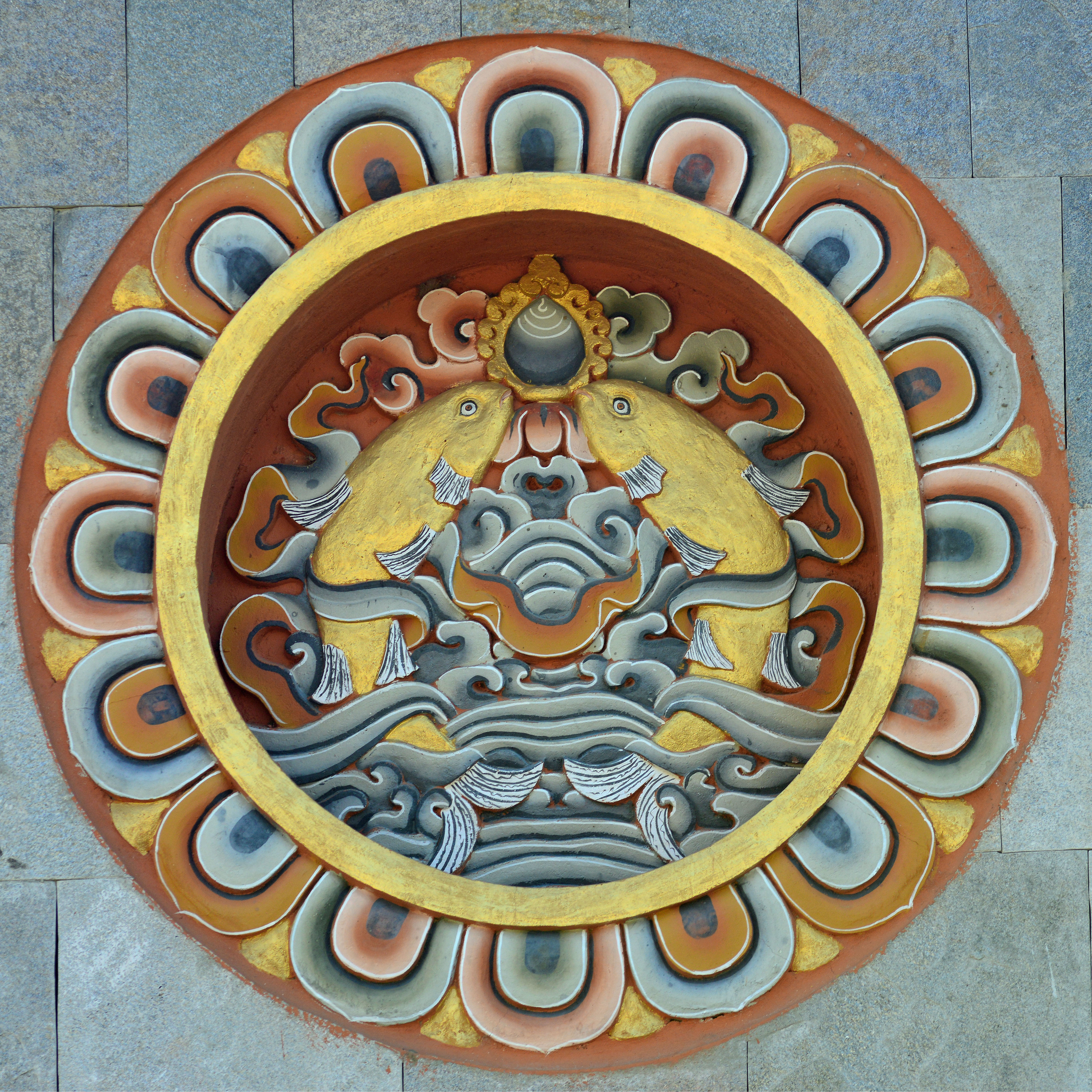 Golden Fishes ~ one of the eight auspicious signs. Aṣṭamaṅgala (བཀྲ་ཤིས་རྟགས་བརྒྱད་) relief at JDWNRH, Thimphu